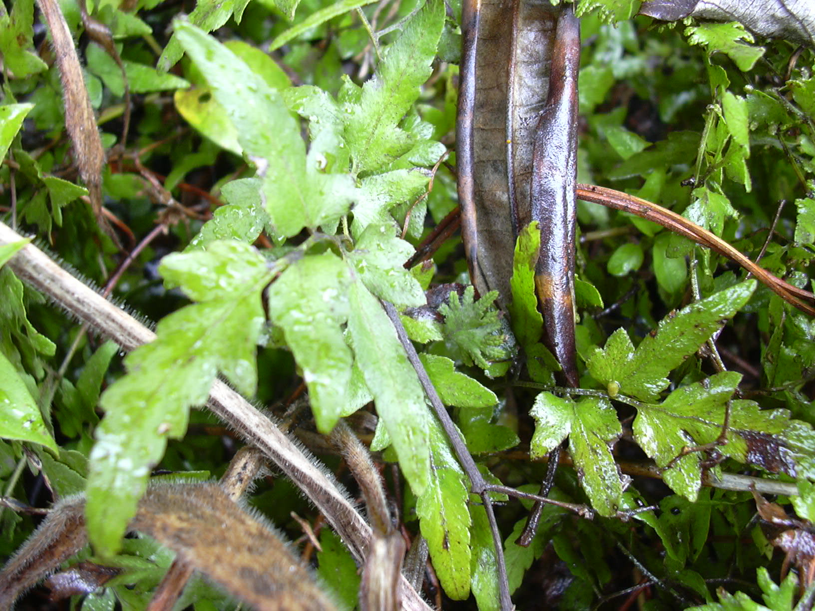 Lygodium japonicum (fronds). Location: Hawaii, Hilo